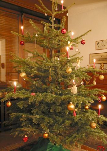 Christmas tree (Abies nordmanniana) in a german home